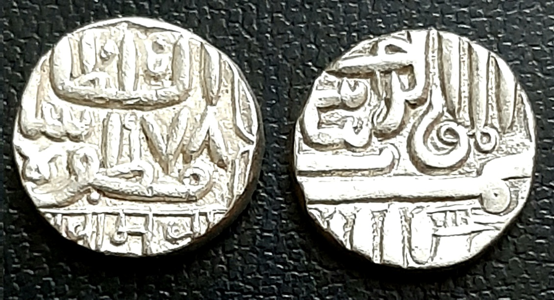 Silver Kori of Nawanagar Princely State